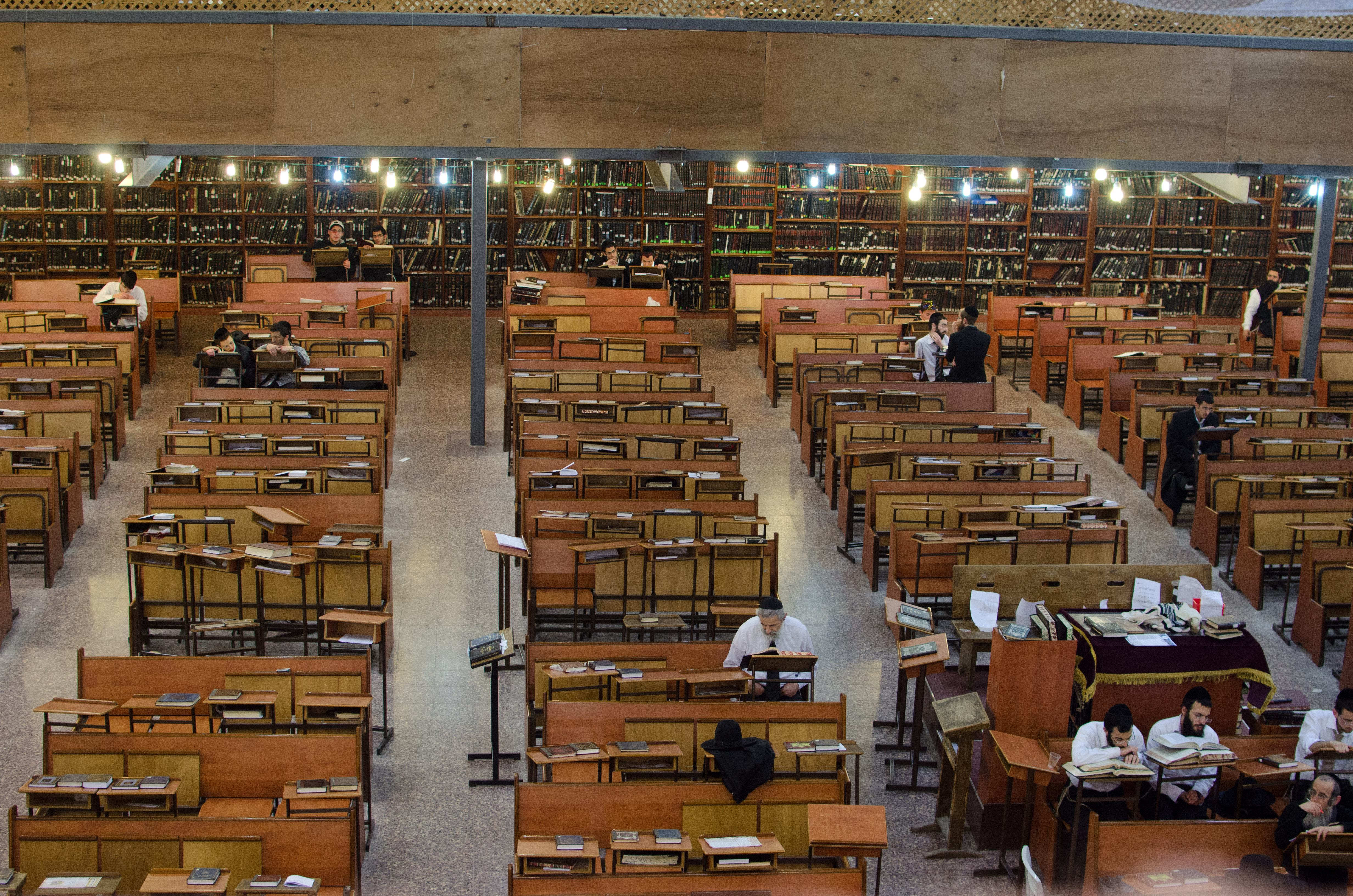 Bnei-Brak, Religion in Israel